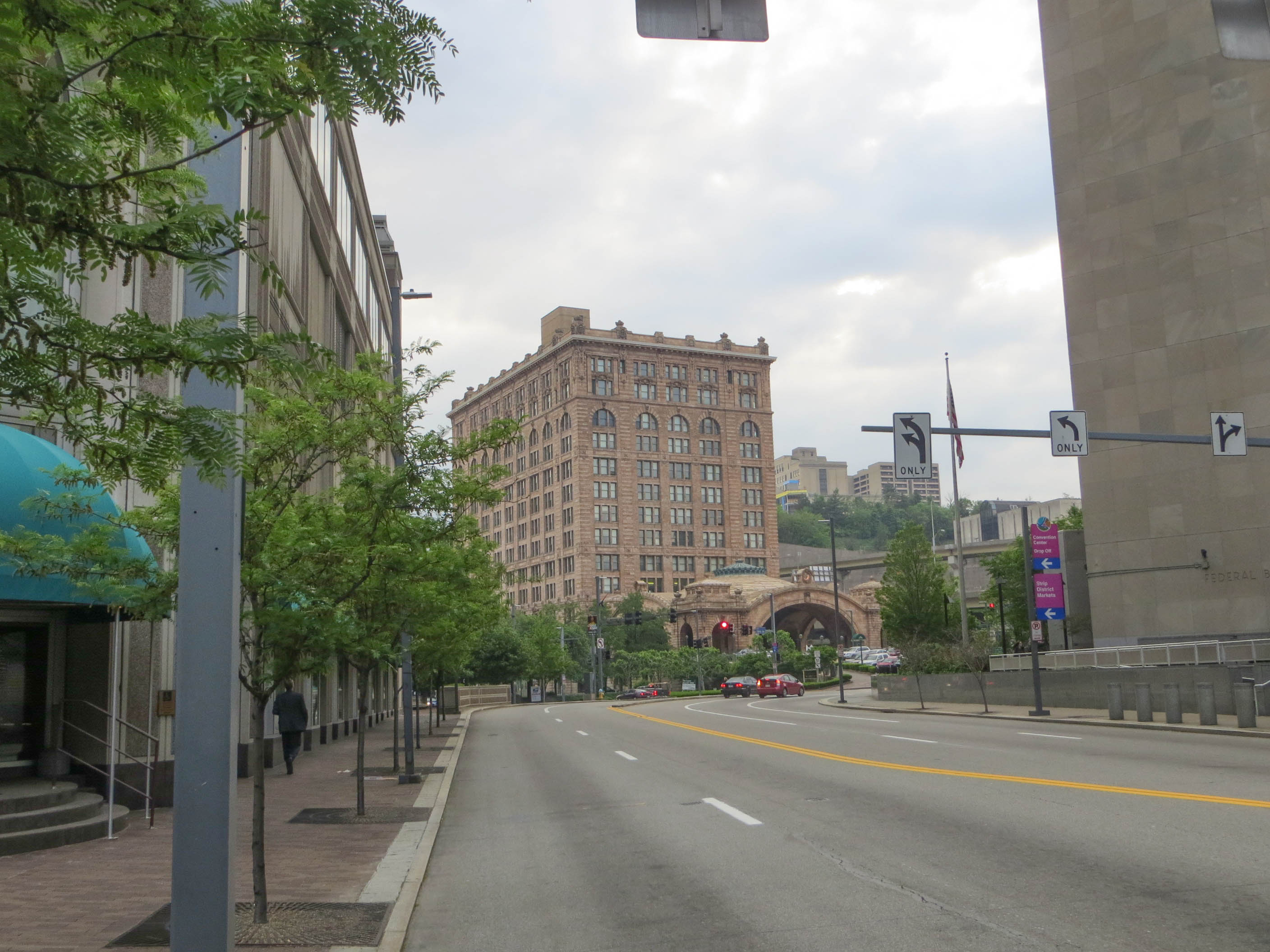 20140523 04 Liberty Ave. near 10th Ave